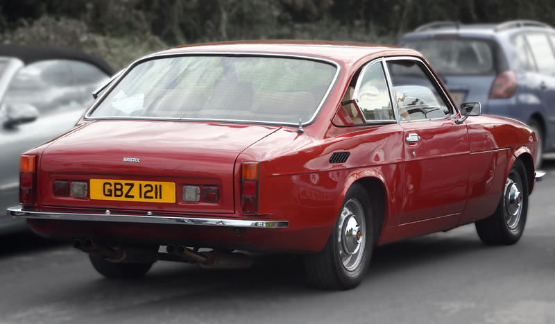 Bristol 603 S2